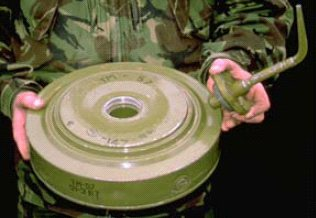 A Soviet TM-57 anti-armour mine being held, showin a tilt fuze mechanism.